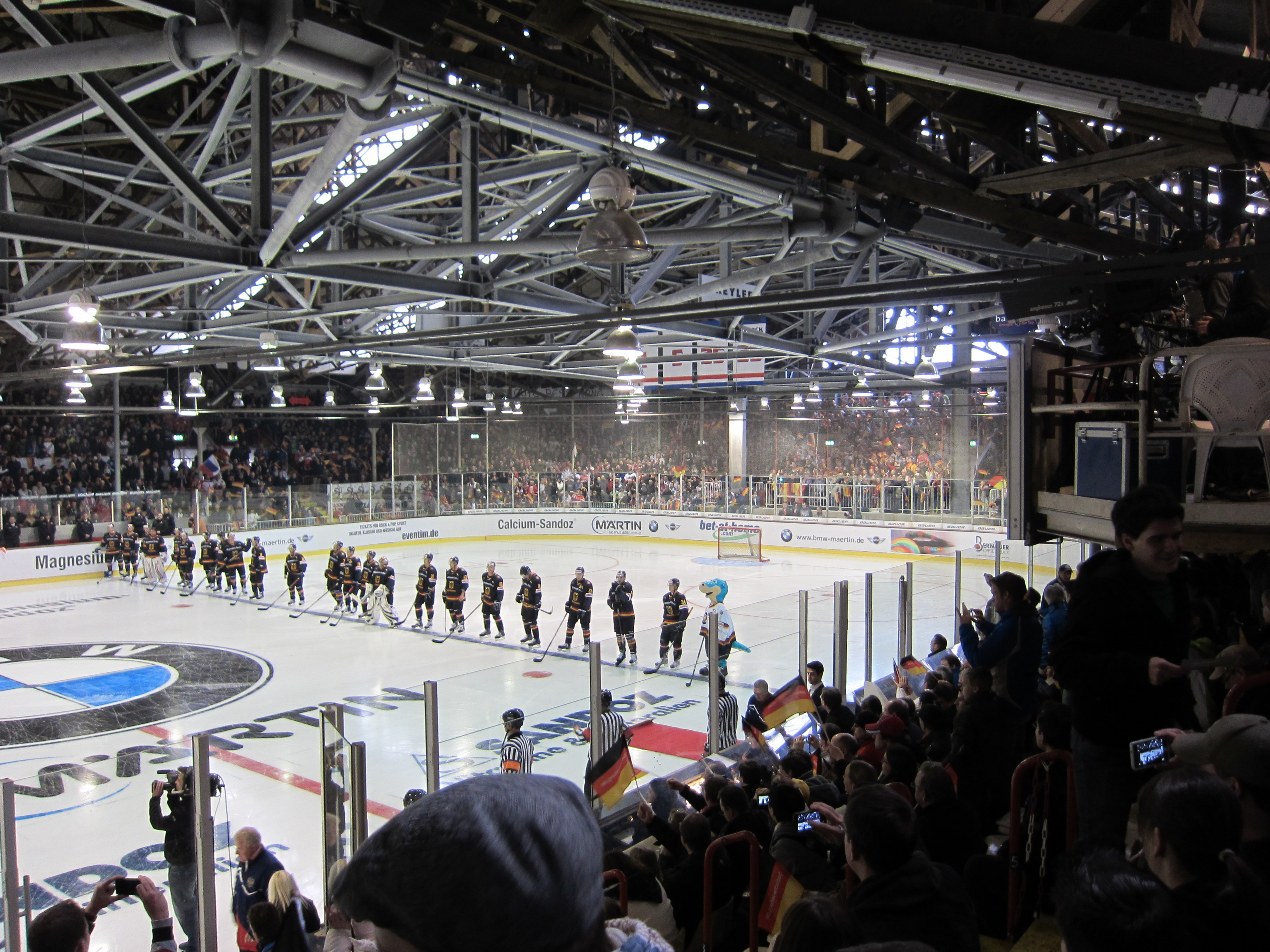 Germany versus Russia (a game of the Euro Hockey Challenge 2012)